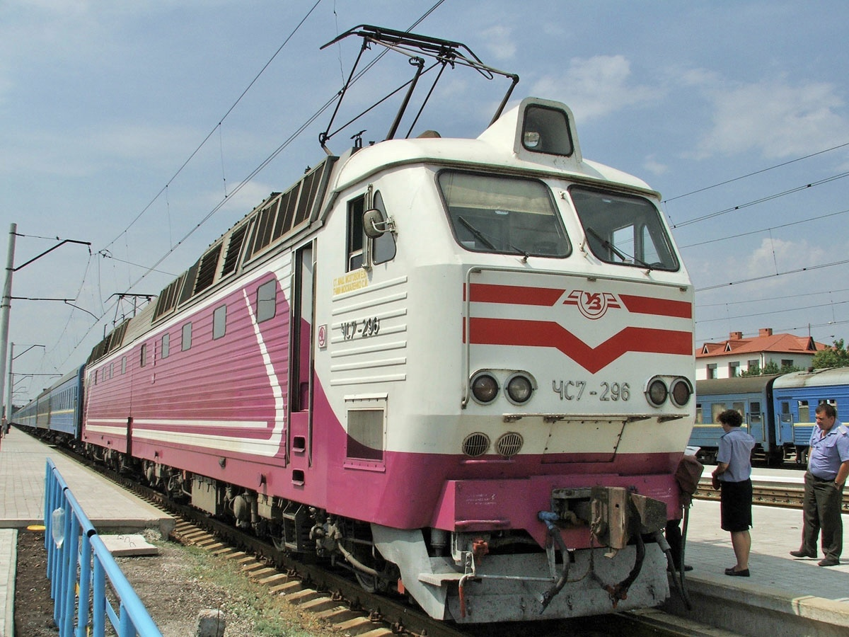 Electric locomotive ChS7